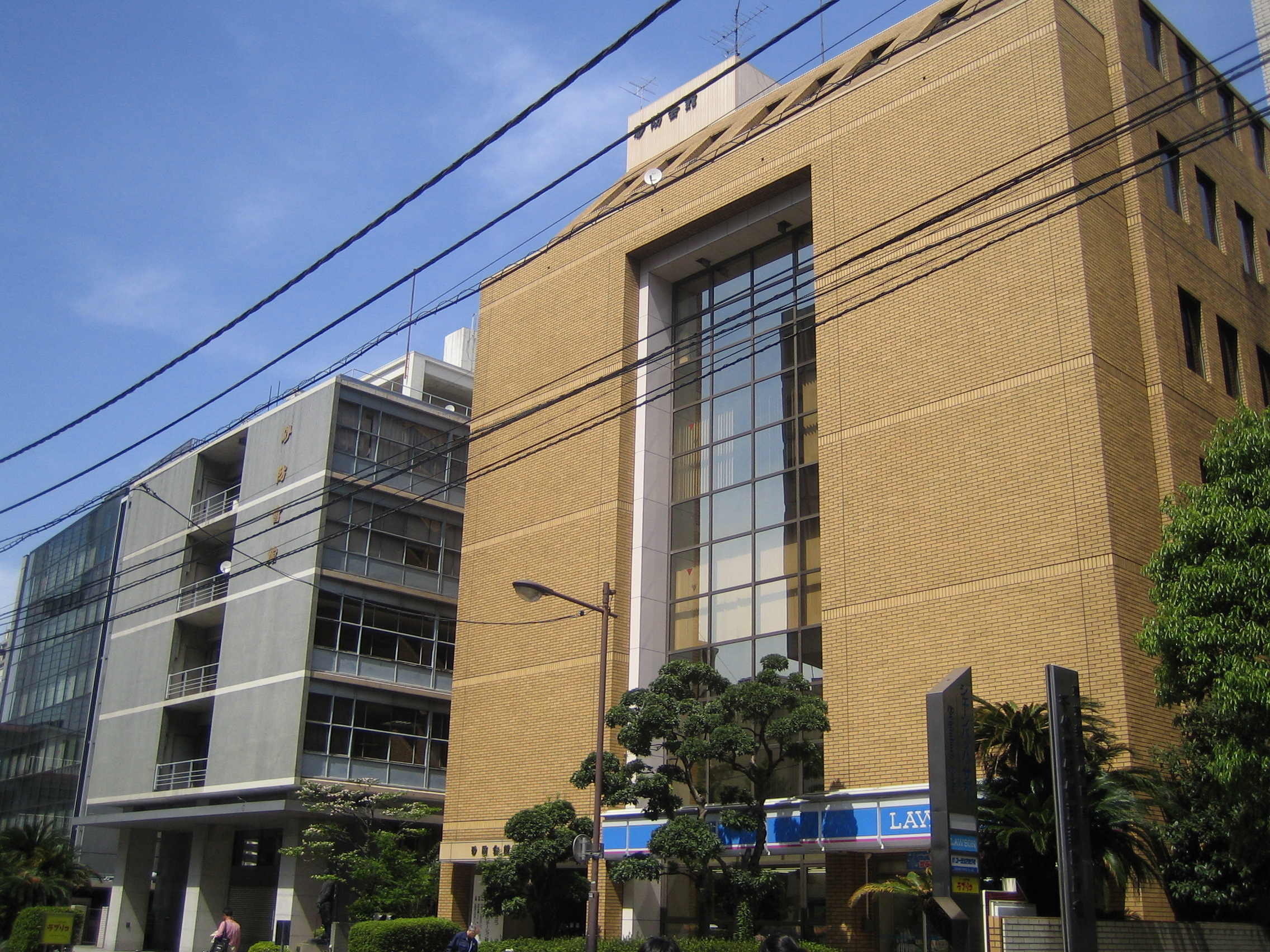 Sabo Kaikan (砂防会館:literally, “debris-slide protection hall”), in Chiyoda, Tokyo, Japan